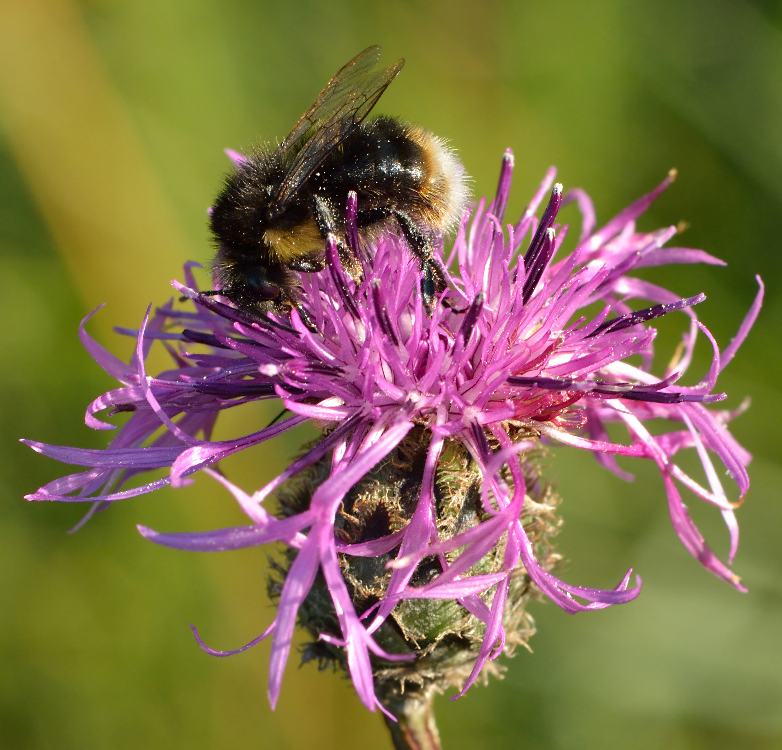 Male Broken-belted bumblebee (Bombus soroeensis subsp. proteus) on the greater knapweed (Centaurea scabiosa). Keila, Northwestern Estonia.